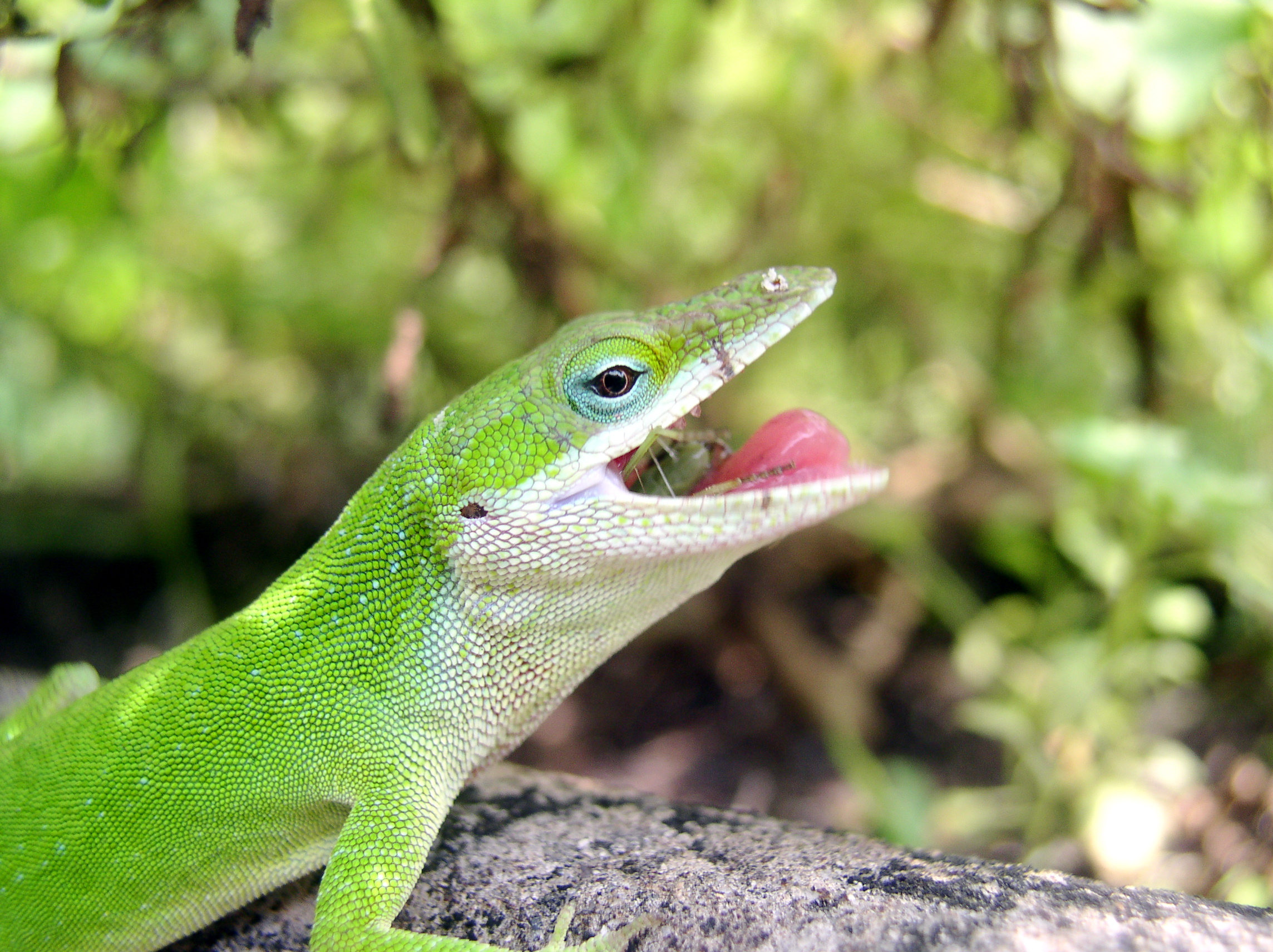 A Carolina Anole Eating a Praying Mantis